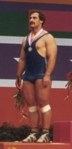 110 kg weightlifting podium at the 1984 Olympics